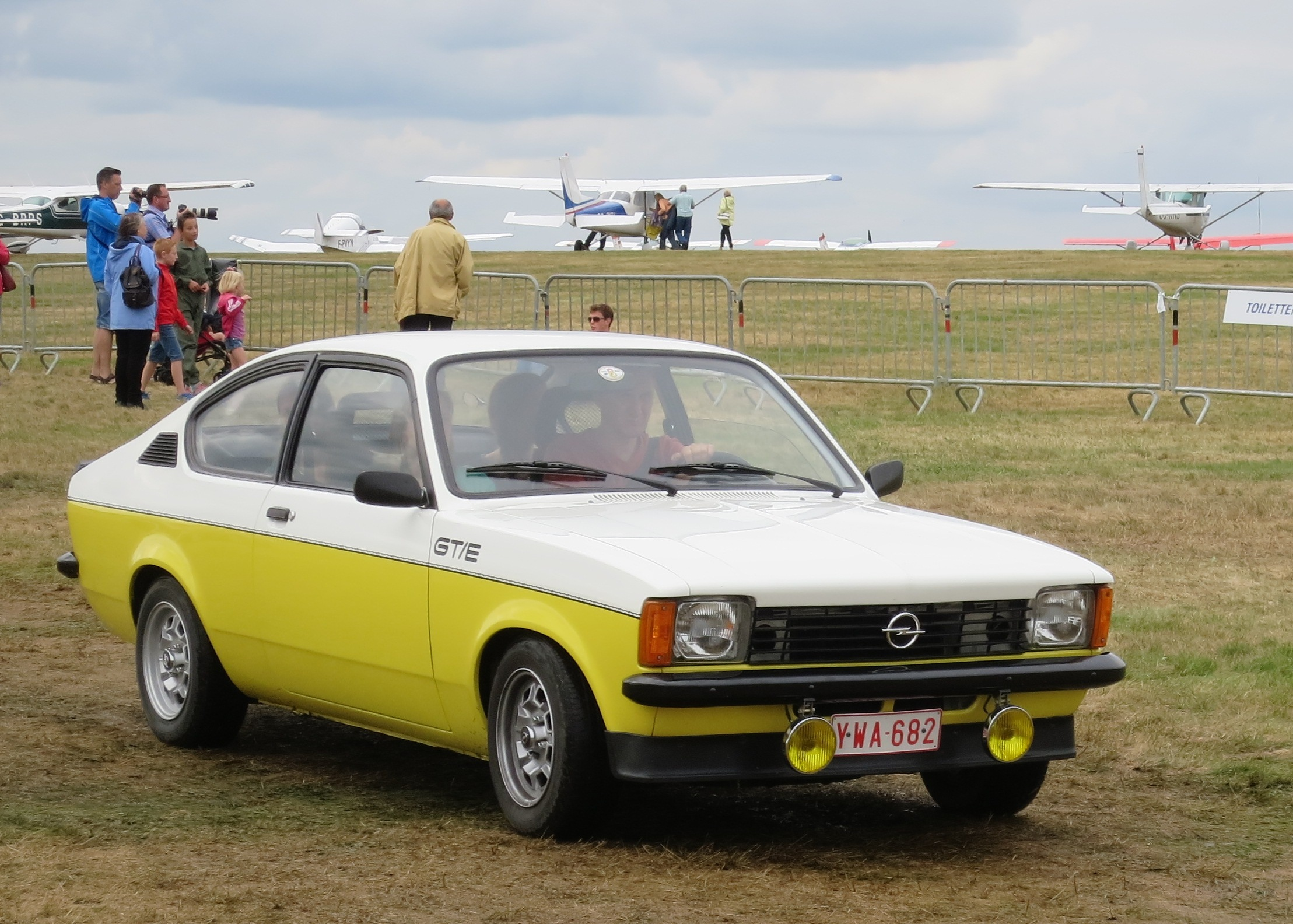 Opel Kadett C Coupé in Belgium